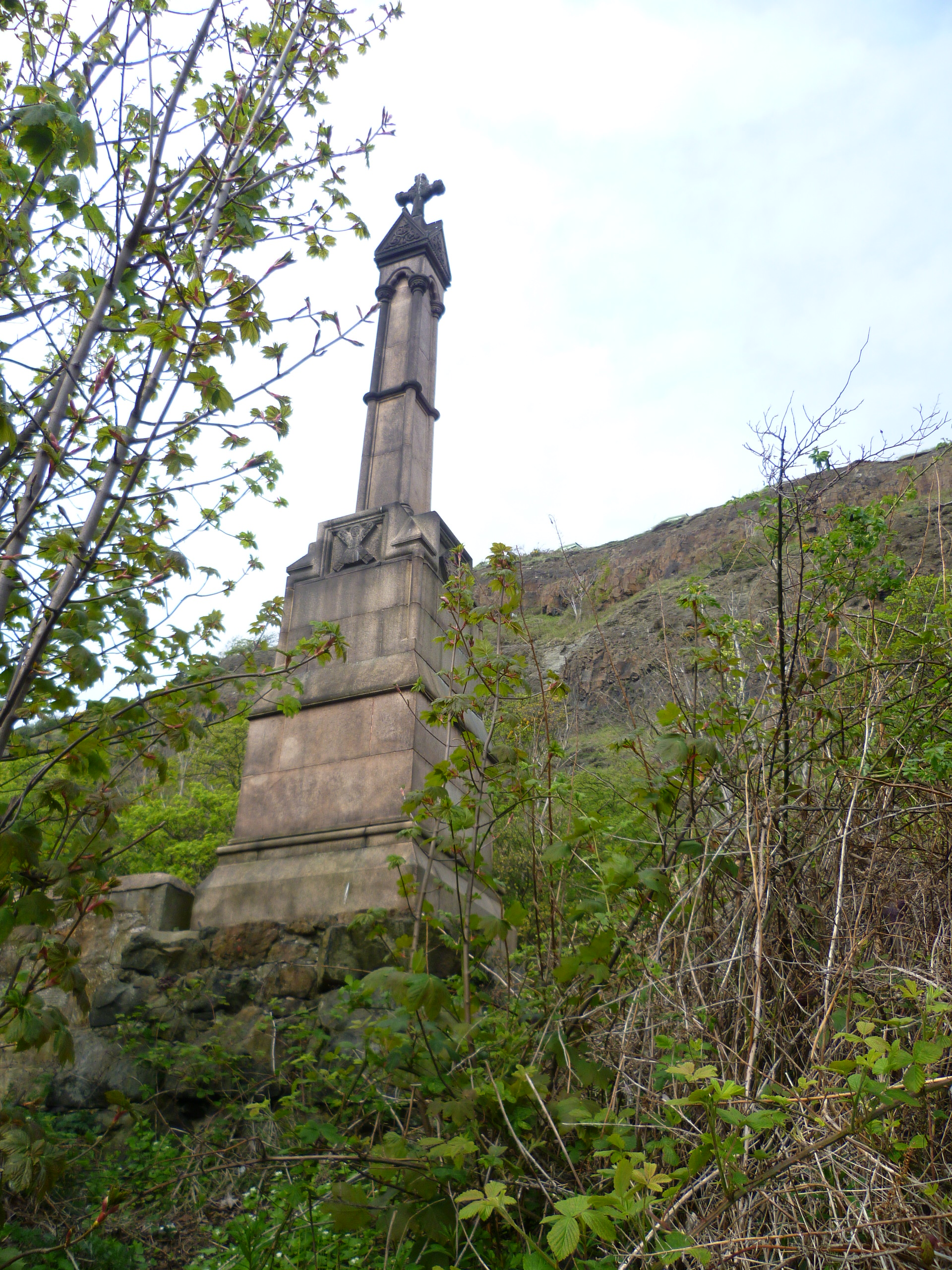 This Victorian monument marks a site of great historical significance in the history of Scotland, but only by pure chance. It stands on the Black Stone, traditionally believed to be the spot where King Alexander III fell accidentally to his death while riding along the coast to his hunting lodge at Kinghorn on a stormy night in 1286. His death allowed his brother-in-law, Edward Plantagenet, to seize the opportunity to meddle in Scottish affairs, which led directly to the Scottish Wars of Independence.